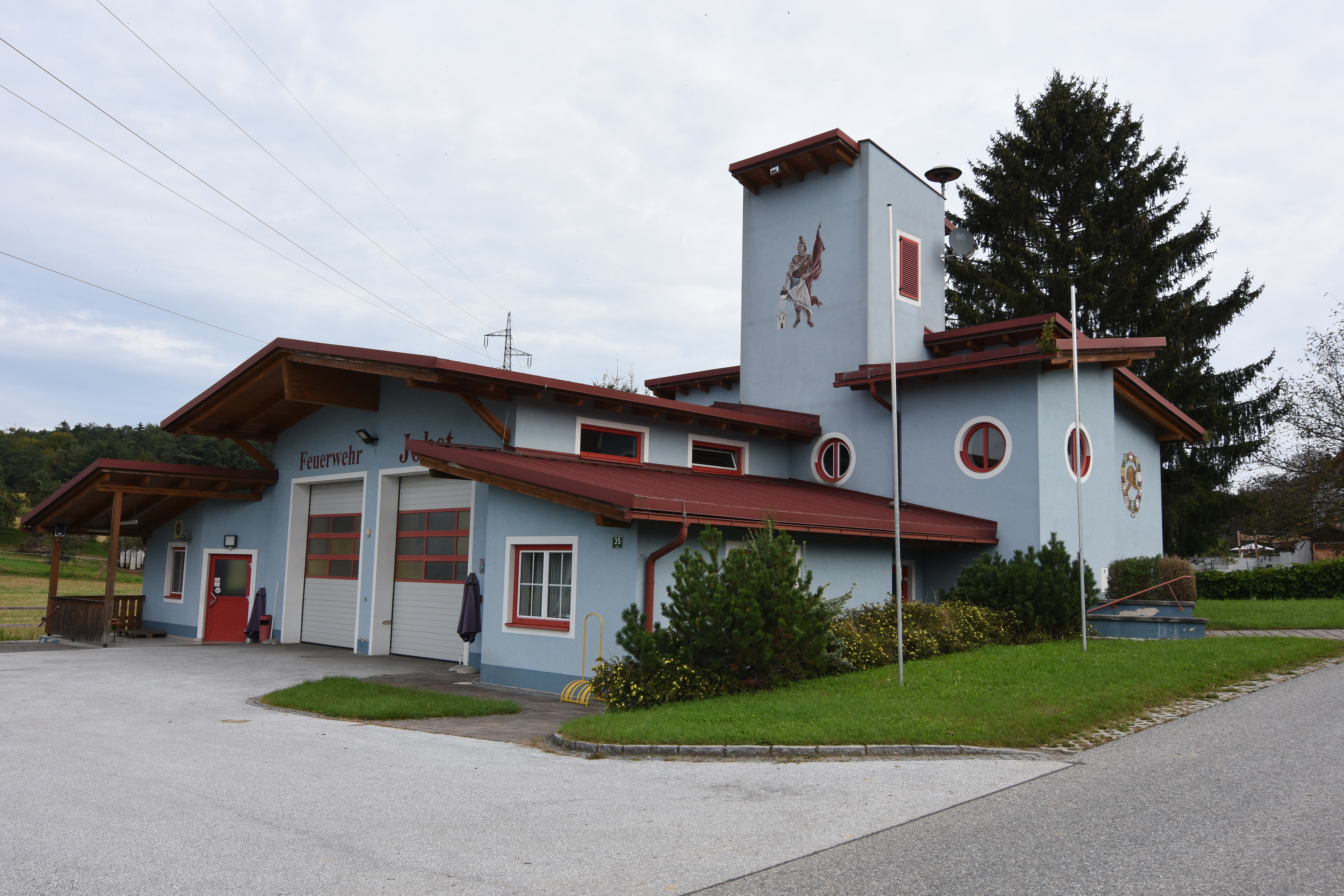 Firebrigade Freiwillige Feuerwehr Jobst